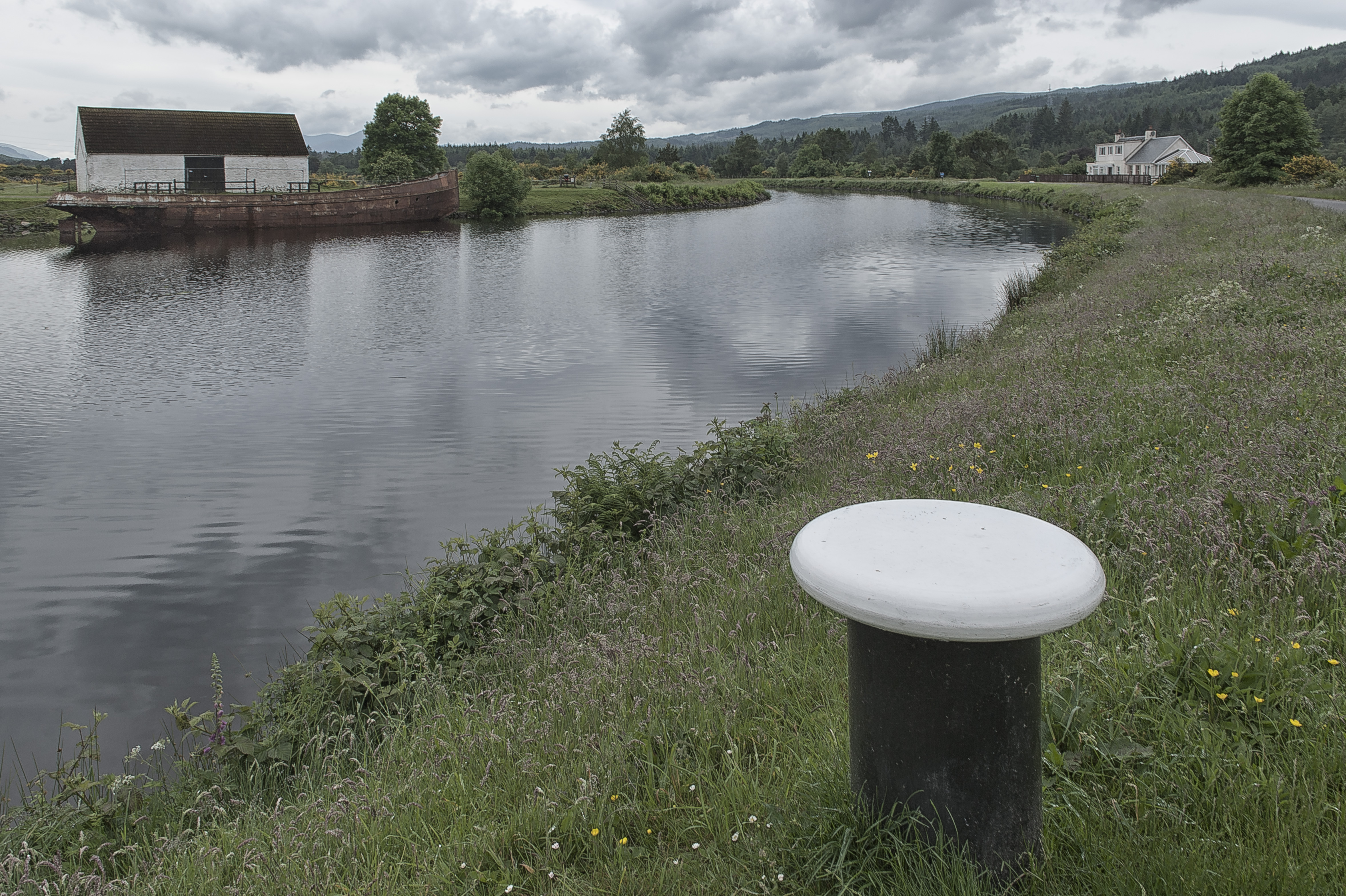 Caledonian Canal near Fort Augustus, Scotland